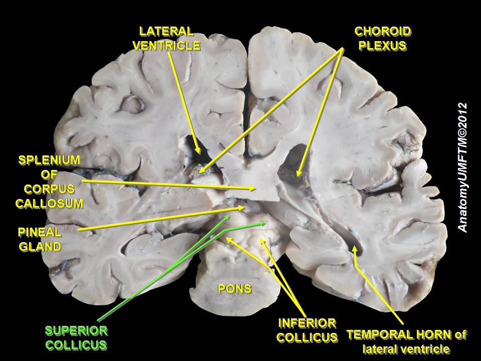 Anatomical dissection